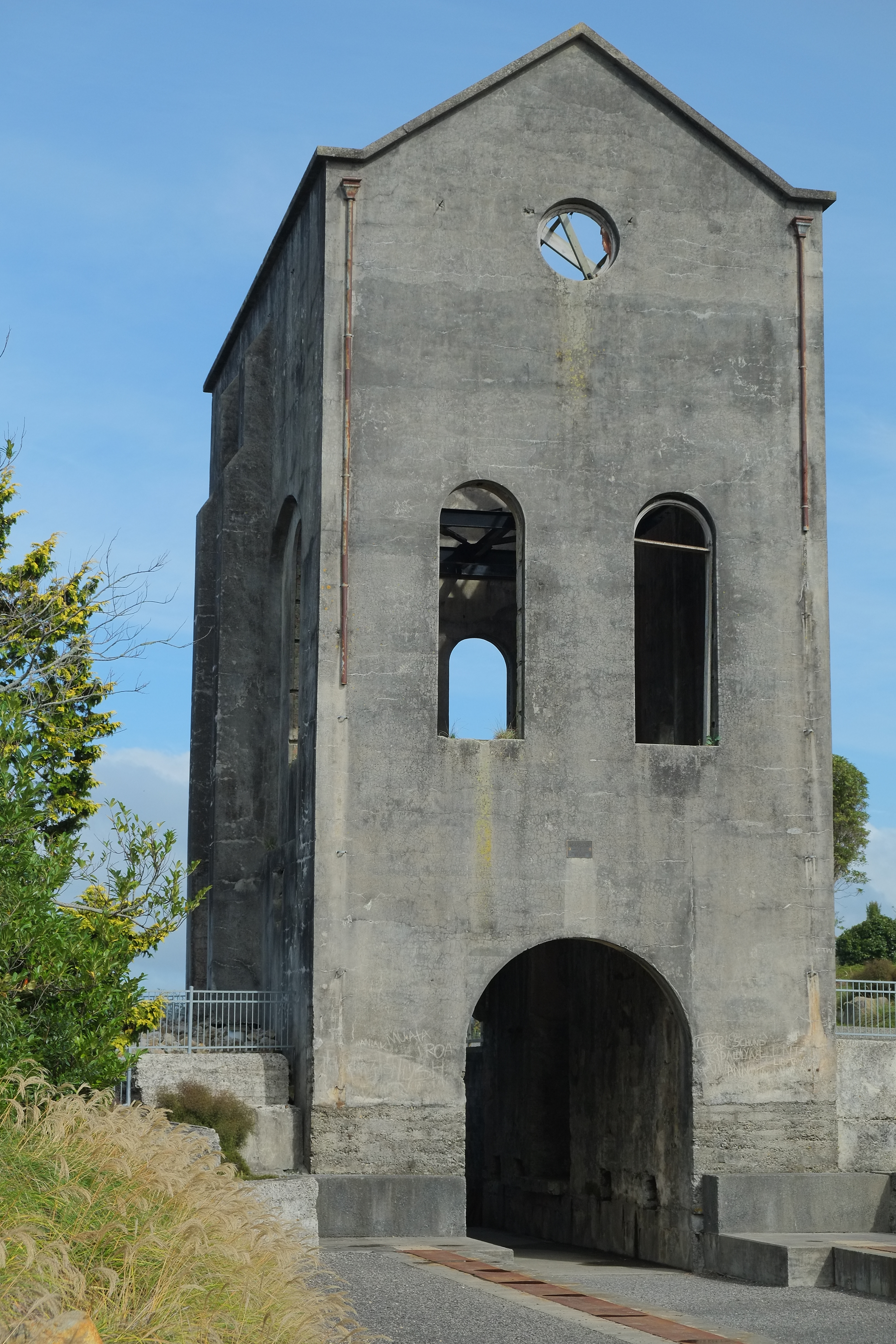 Cornish Pumphouse (Martha Mine No 5 Pumphouse) in Waihi